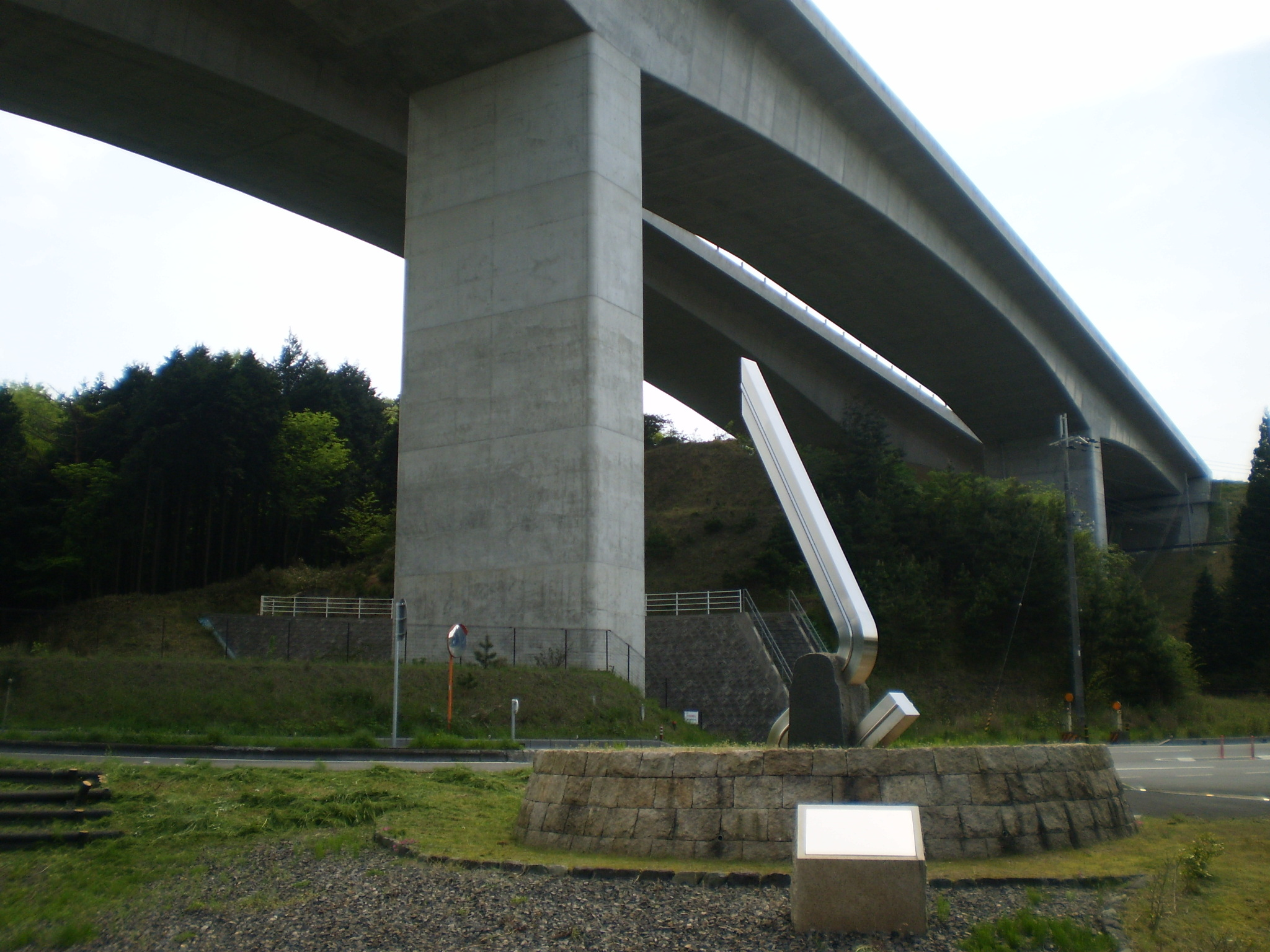 Ground monument of Shin-Meishin beginning the construction. I took this image at Yamanaka Tsuchiyama-cho Koka City Shiga Pref., Japan.